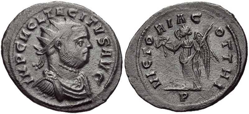 Tacitus. AD 275-276. Antoninianus (23mm, 3.30 g, 6h). Ticinum mint, 1st officina. 2nd emission, early-mid AD 276. IMP C M CL TACITVS AVG Radiate, draped, and cuirassed bust right VICTORIA GOTHI Victory advancing left, holding wreath and palm branch; P in exergue. RIC V 172; BN 1674-5 RSC 157. Good VF, dark brown surfaces.